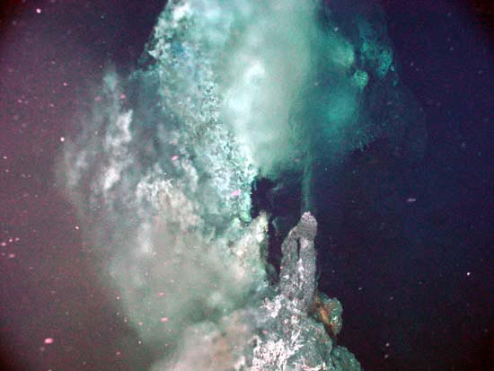 This anhydrite and sulfide chimney, at Majestique vent field, projects hot vent fluid into the friged deep-sea waters.